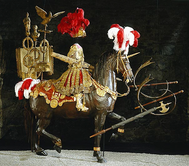 The costume and horse harness that king Charles XI wore at his Coronation festivites, as the "Knight of Honour".